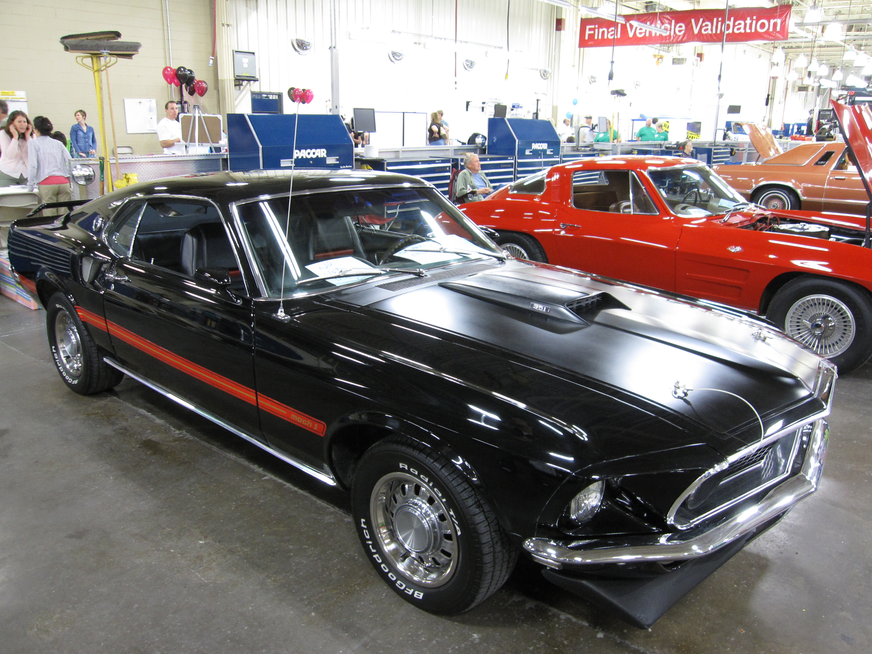 1969 Ford Mustang Mach 1